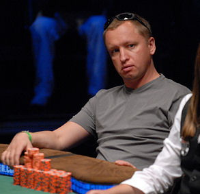 Alex Kravchenko at the 2007 World Series of Poker. / cropped from the original